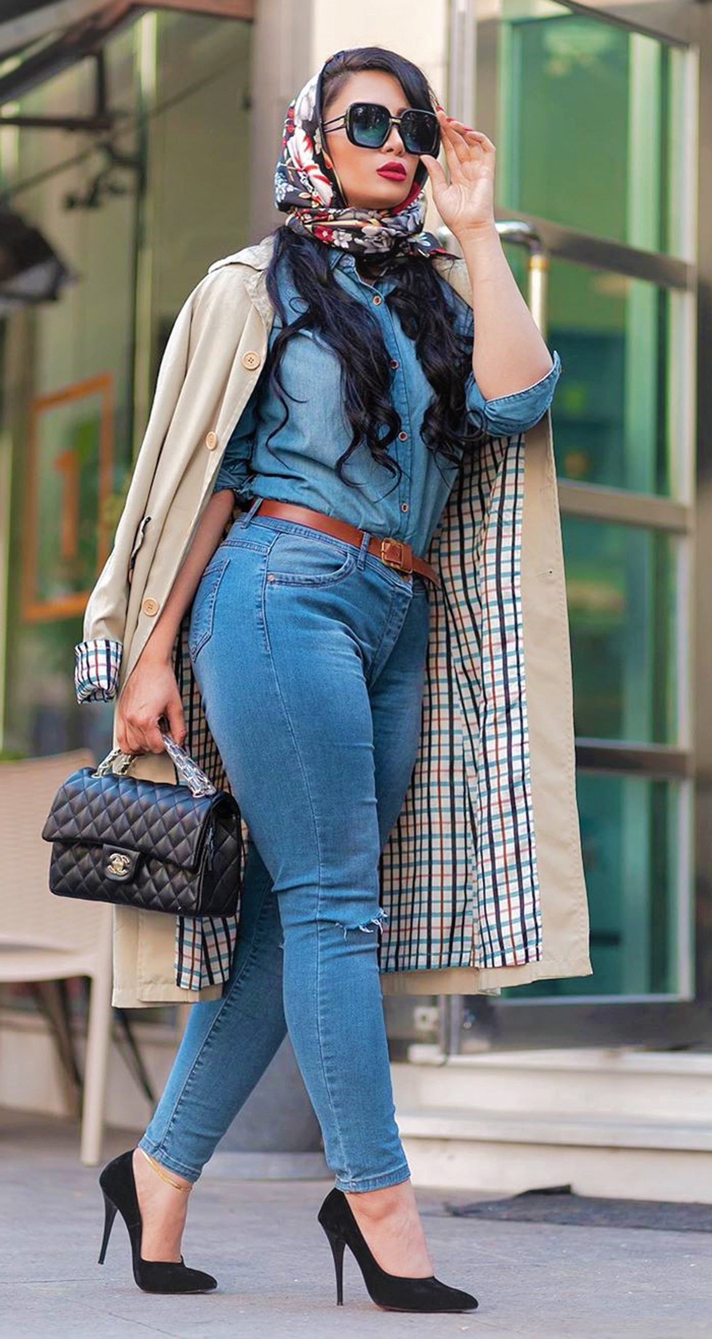 Velenjak 2019 Tehran Chanel Bag with RICH TEXTURES. Optimized and blurred with Photoshop.